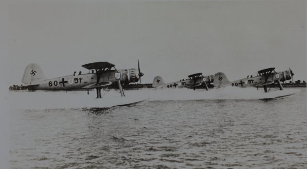 Heinkel He 114 PictionID:38236934 - Catalog:Array - Title:Array - Filename:15_002342.TIF - -------Image from the Charles Daniels Photo Collection.----Album: German Aircraft.-----------PLEASE TAG these images with any information you know about them so that we can permanently store this data with the original image file in our Digital Asset Management System.-----------------SOURCE INSTITUTION: San Diego Air and Space Museum Archive